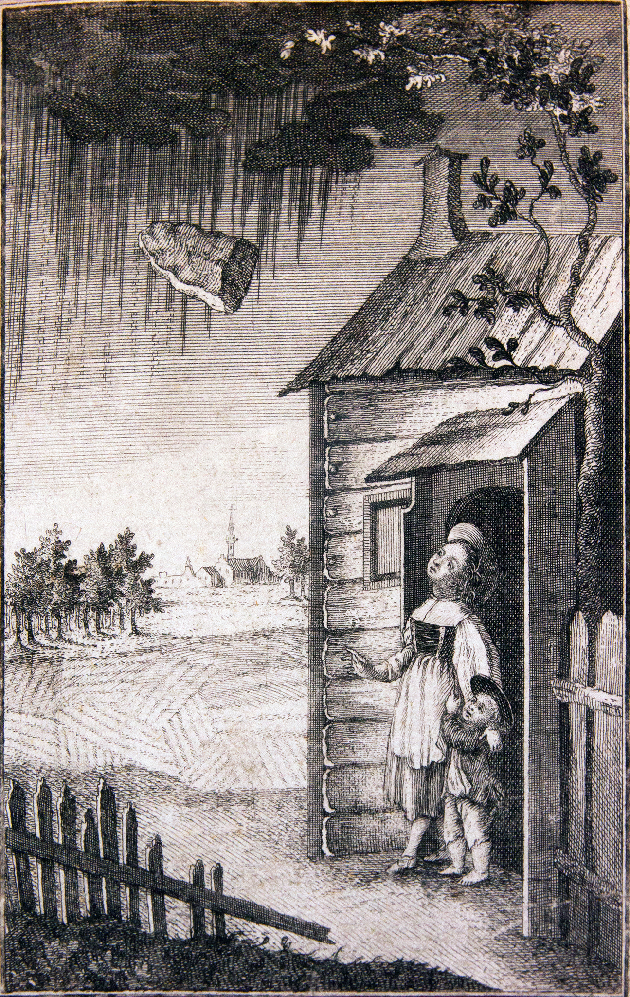 Copper Engraving showing the fall of the Mauerkirchen Meteorite in 1768, from the 1769 booklet "Nachricht und Abhandlung von einem in Bayern unweit Maurkirchen den 20. November 1768 aus der Luft herab gefallenen Stein". Photo taken at the Munich Mineral show 2018, which featured a special exhibition on the occasion of the 250. anniversary of fall of the Mauerkirchen meteorite.